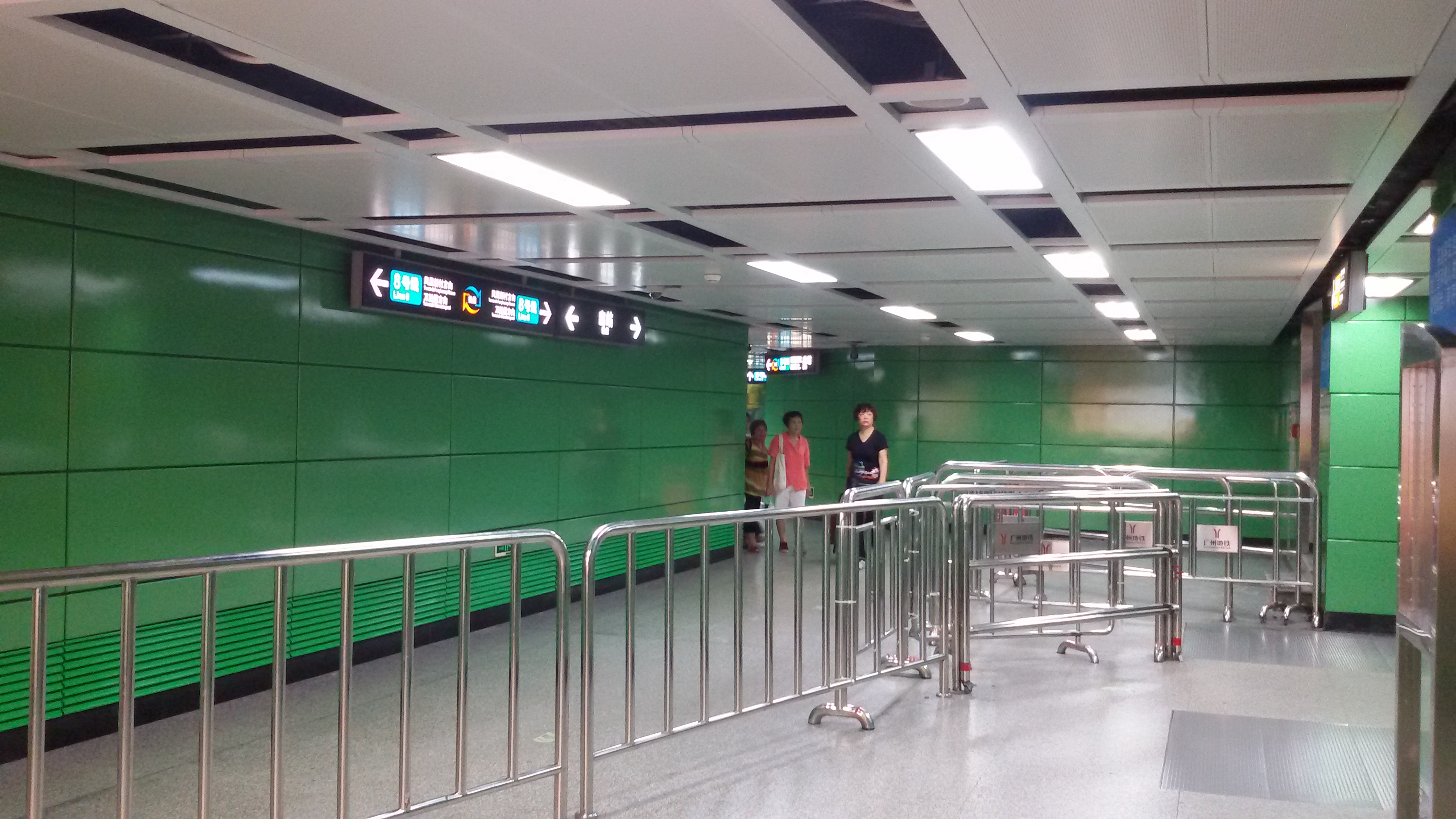 Transport Concourse for Kecun Station in Guangzhou Metro.